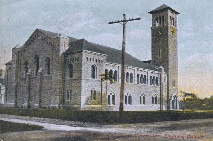 Postcard of Grant Memorial Hall, Queen's University, Kingston, Ontario, Canada.